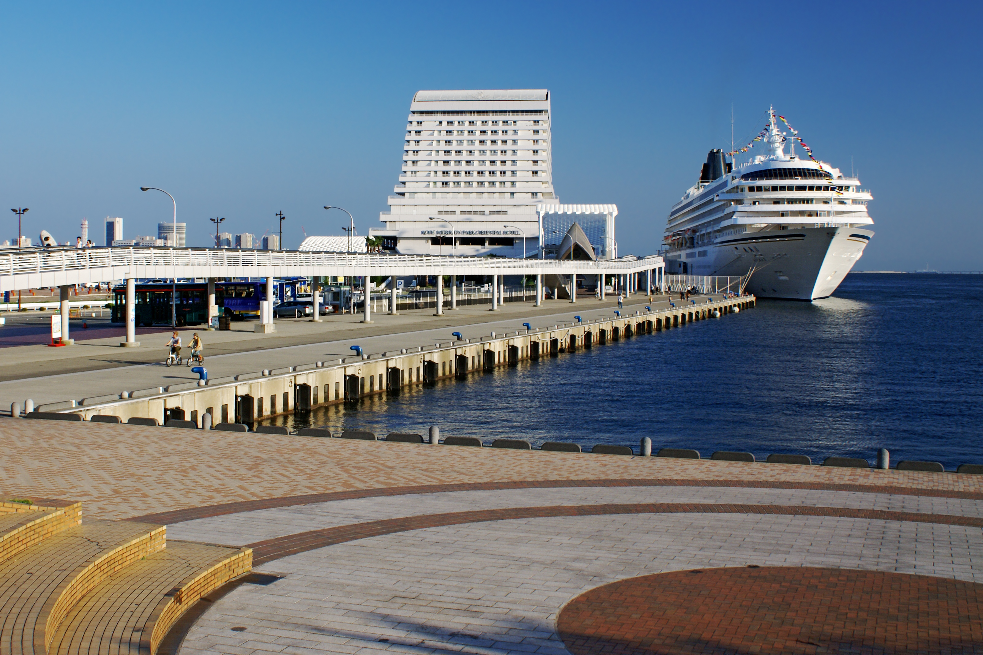 "Asuka II" who anchors at the wharf "Nakatottei" of the Kobe harbor (Kobe, Hyogo prefecture, Japan)